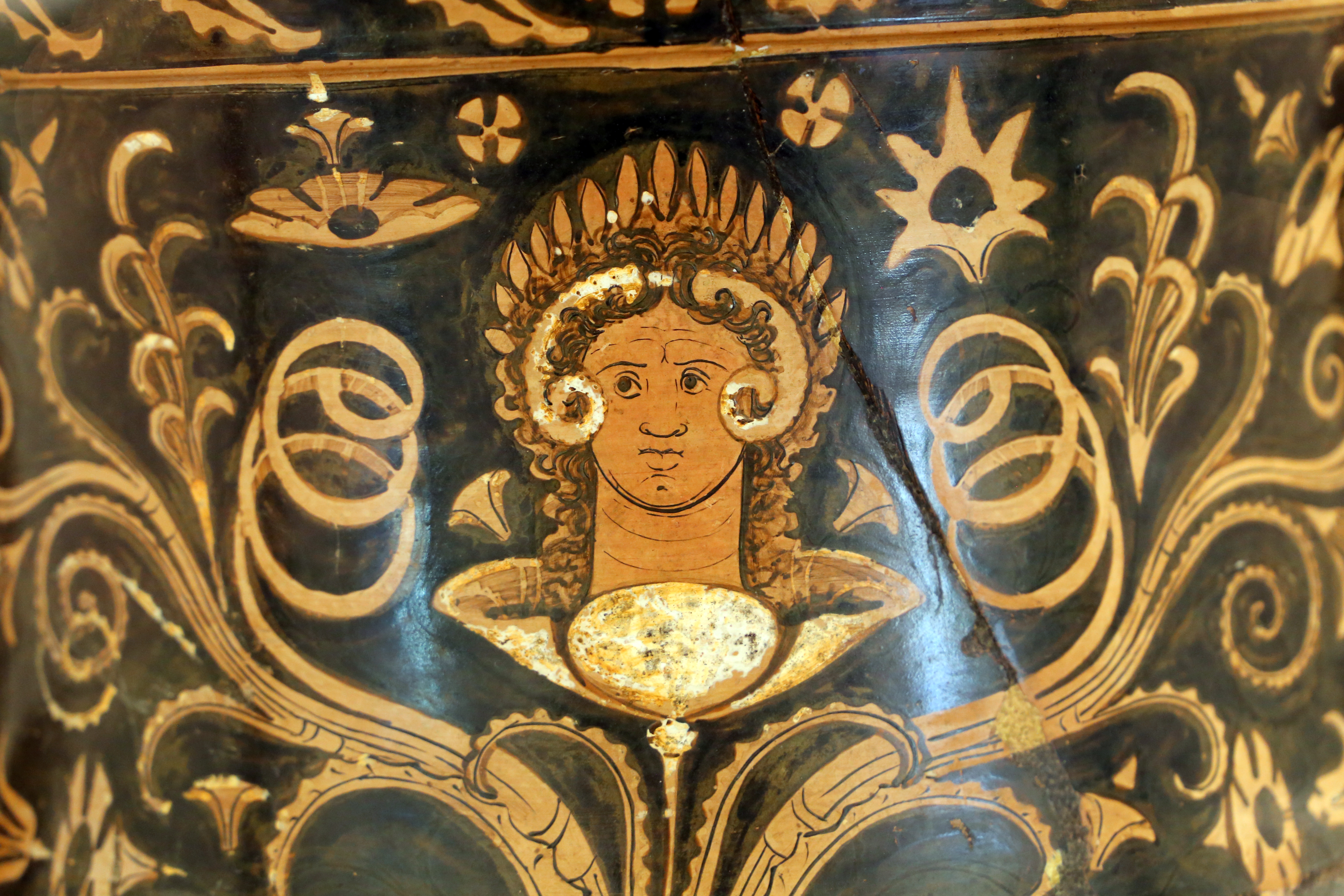 Apulian pottery in the Museo archeologico nazionale Domenico Ridola